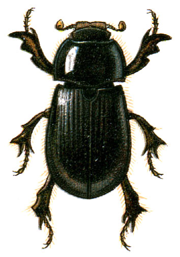 Hybosorus illigeriJacobson, G. G. 1905-1915. The Beetles of Russia, West Europe and Adjacent Countries. A. F. Devrien, St. Petersburg.